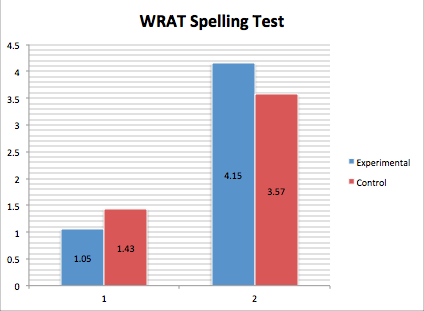 WRAT Spelling Test pretest and post-test results for Experimental and Control groups